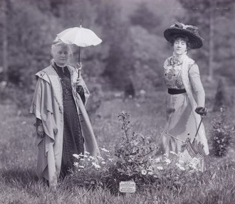 Suffragettes Edith Wheelwright and Lilias Ashworth Hallett, Eagle House, Batheaston 1910